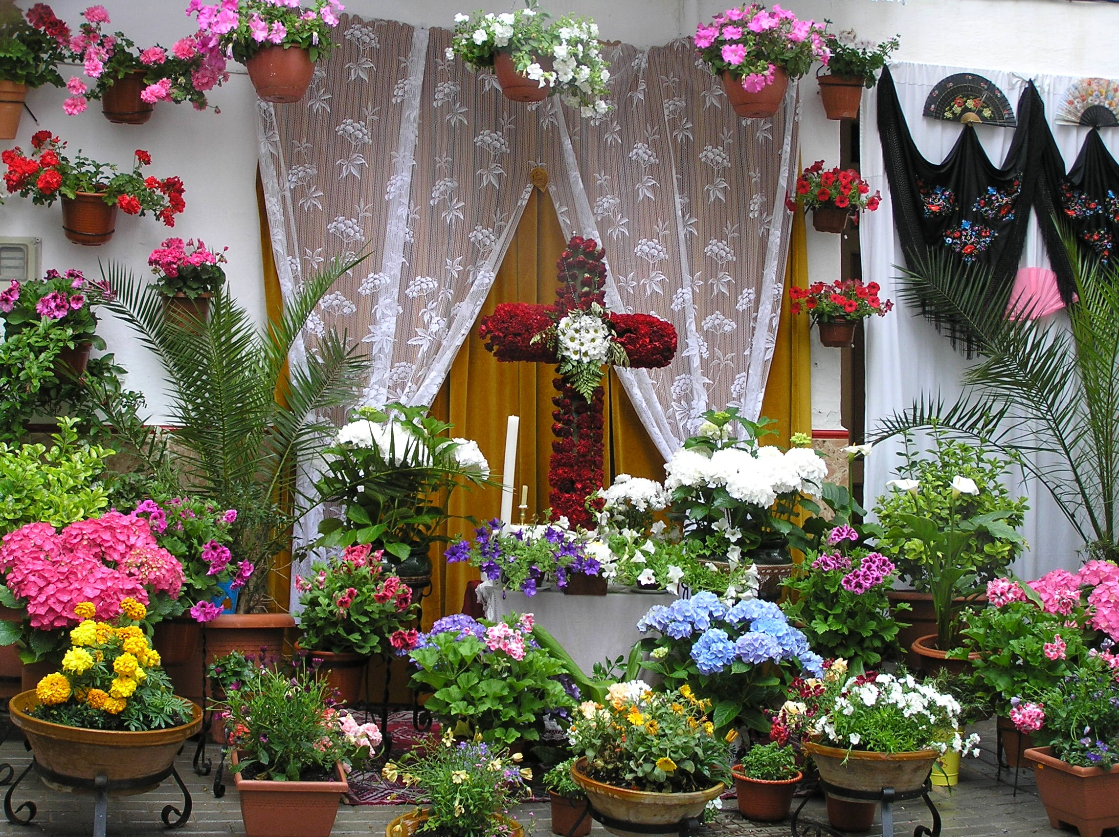 Cruz de mayo en Beas